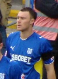 Players Come Out